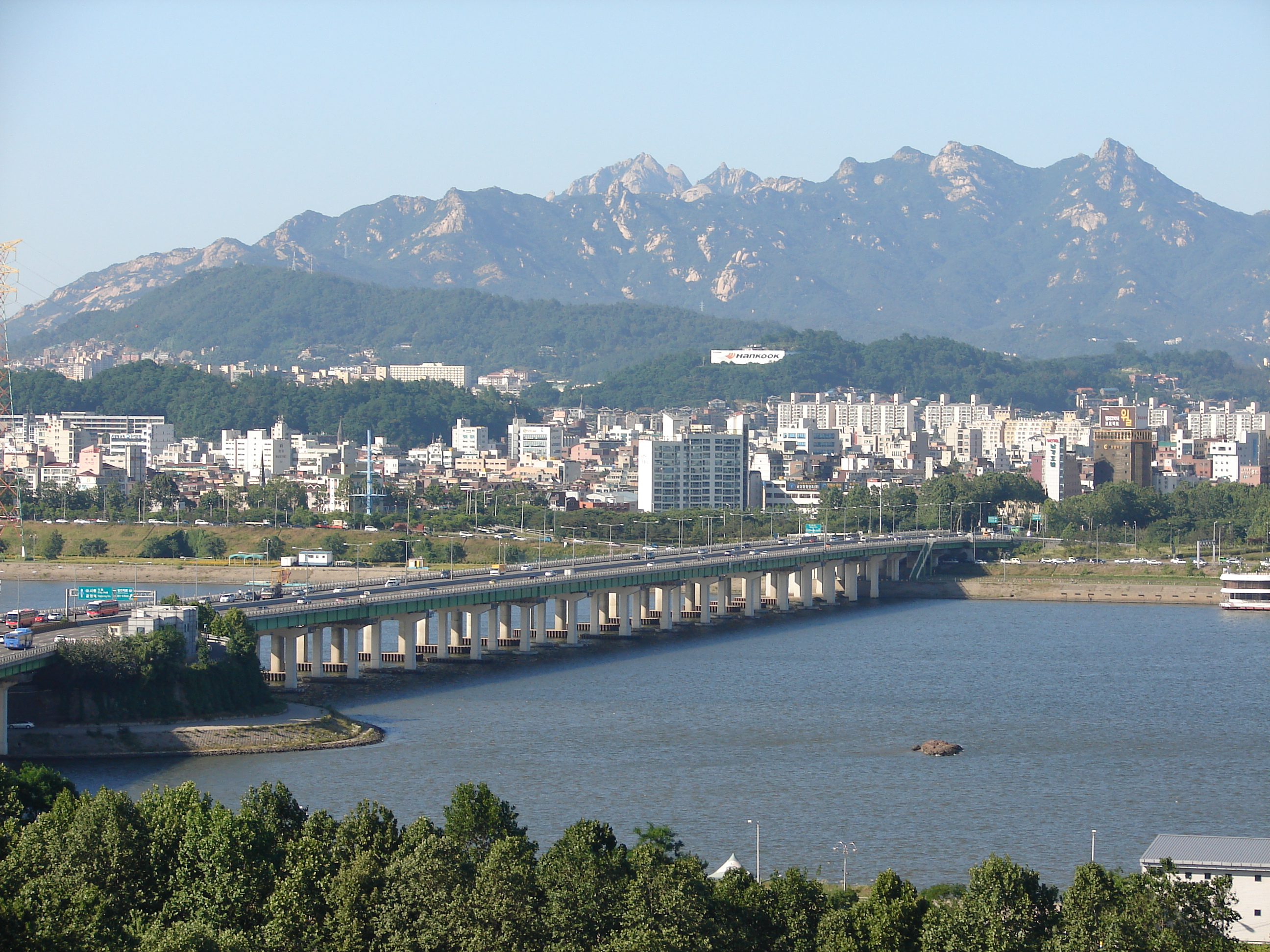 The Yanghwa Bridge (양화대교) is an eight lane bridge spanning the Han River in Seoul. The bridge connects Mapo-gu on the north side of the river to Yeongdeungpo-gu on the south side of the river. The bridge is buttressed by the eastern end of the island of Seonyudo, home to Seonyudo Park (선유도공원).